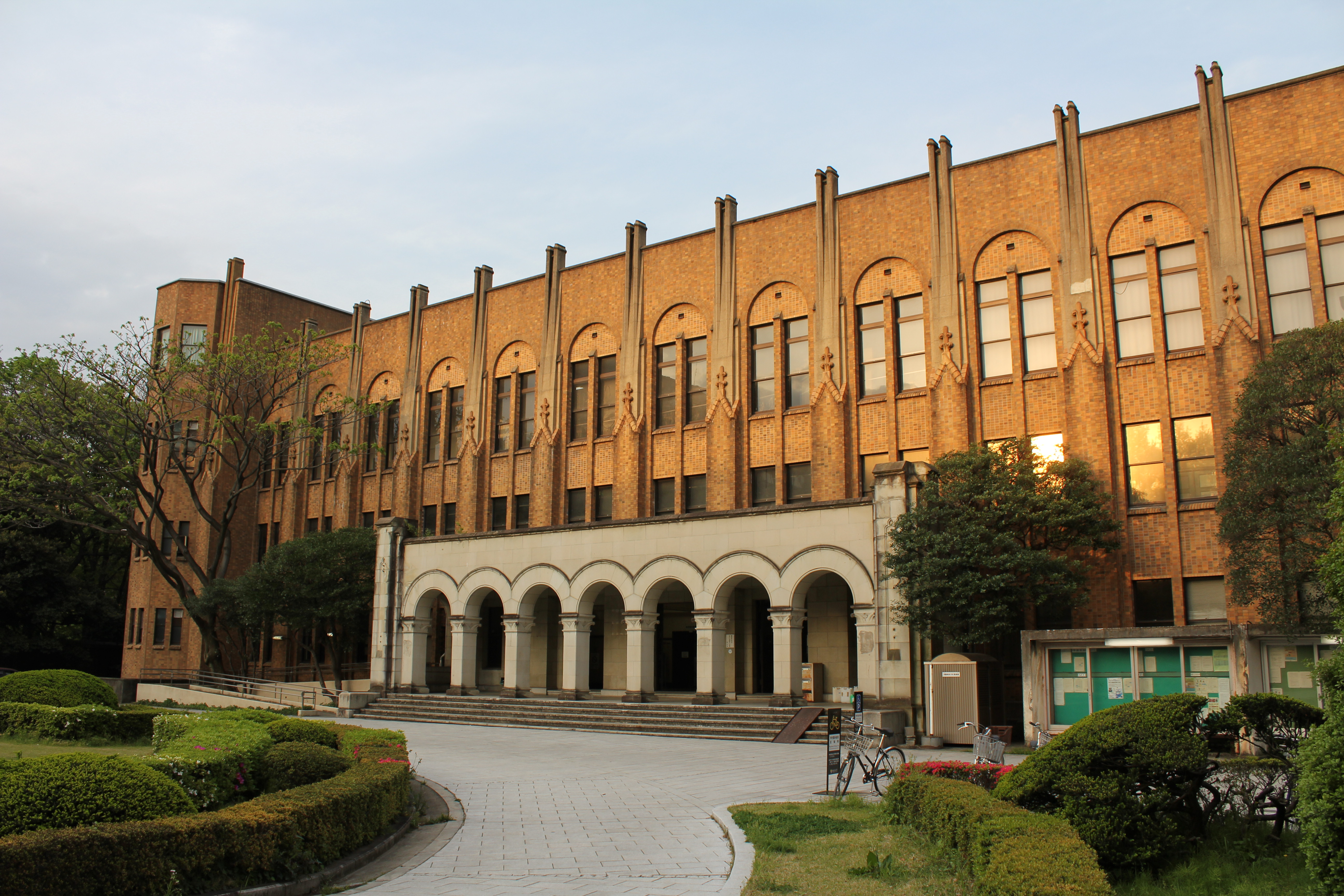 Building #2 of the faculty of medecine, Hongo campus, University of Tokyo, Japan.